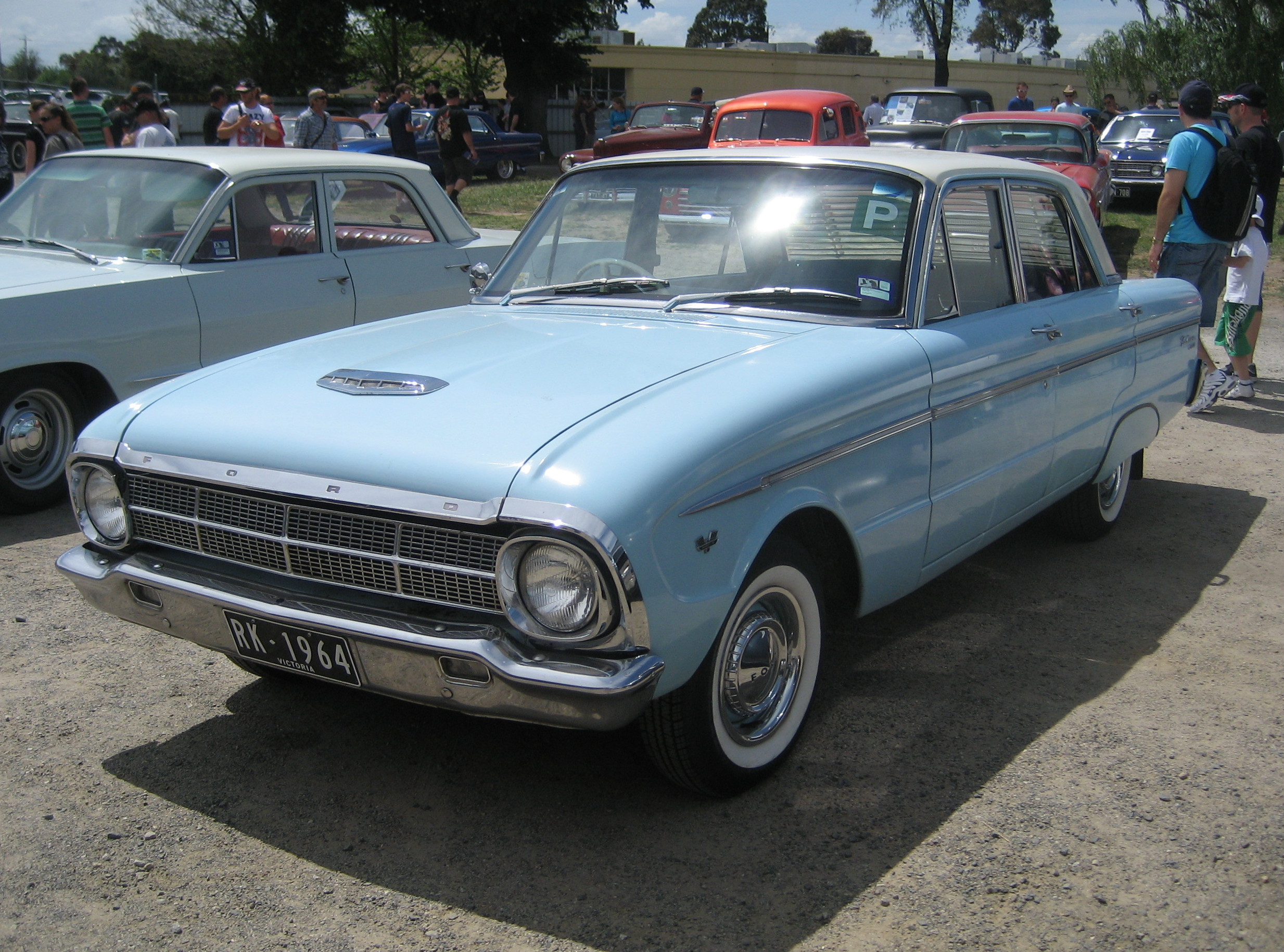 Ford XM Falcon Built from Feb 1964-Feb 1965 Engines; 144, 170 Pursuit & 170 Super Pursuit Sedan; Standard, Deluxe or Futura Hardtop; Deluxe or Futura Wagon; Standard, Deluxe or Squire Utility; Standard or Deluxe Van; Standard or Deluxe